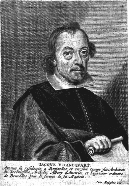 Portrait of Jacob Franquart in Cornelis de Bie's Gulden Cabinet.